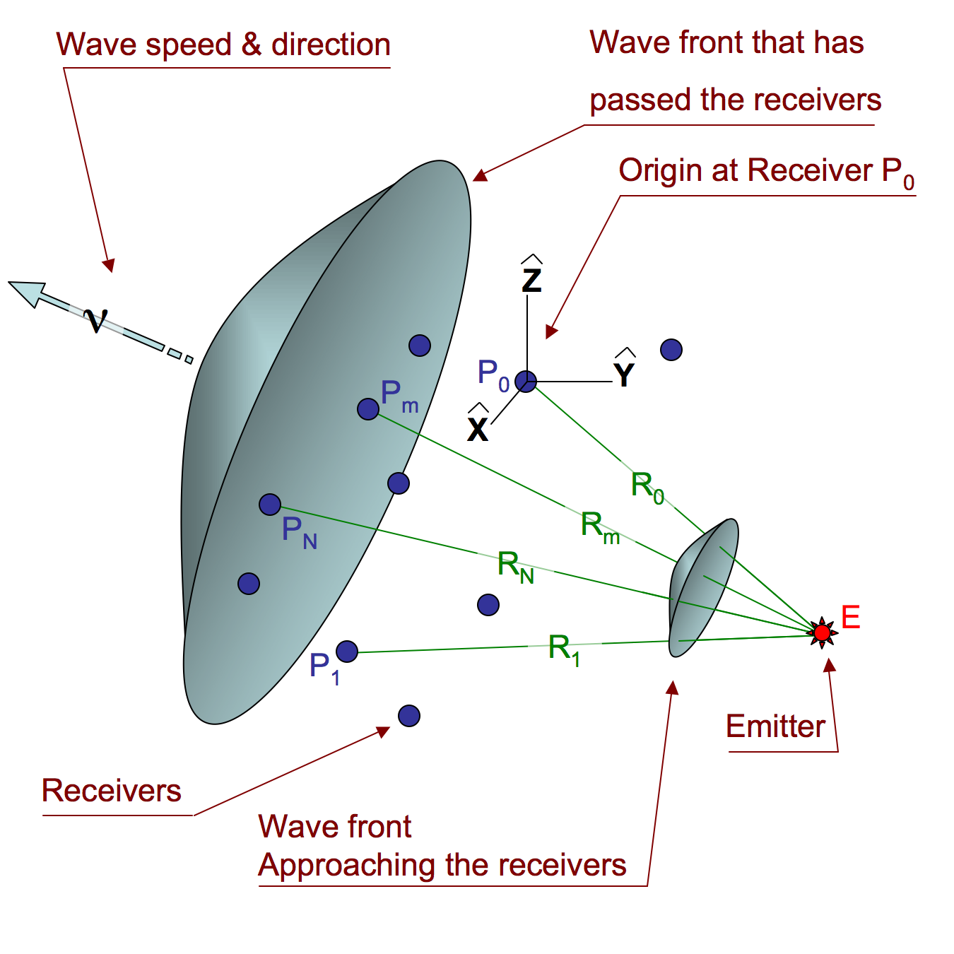 Geometry of spherical waves emanating from an emitter and passing through several receivers.